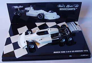 Image copyright